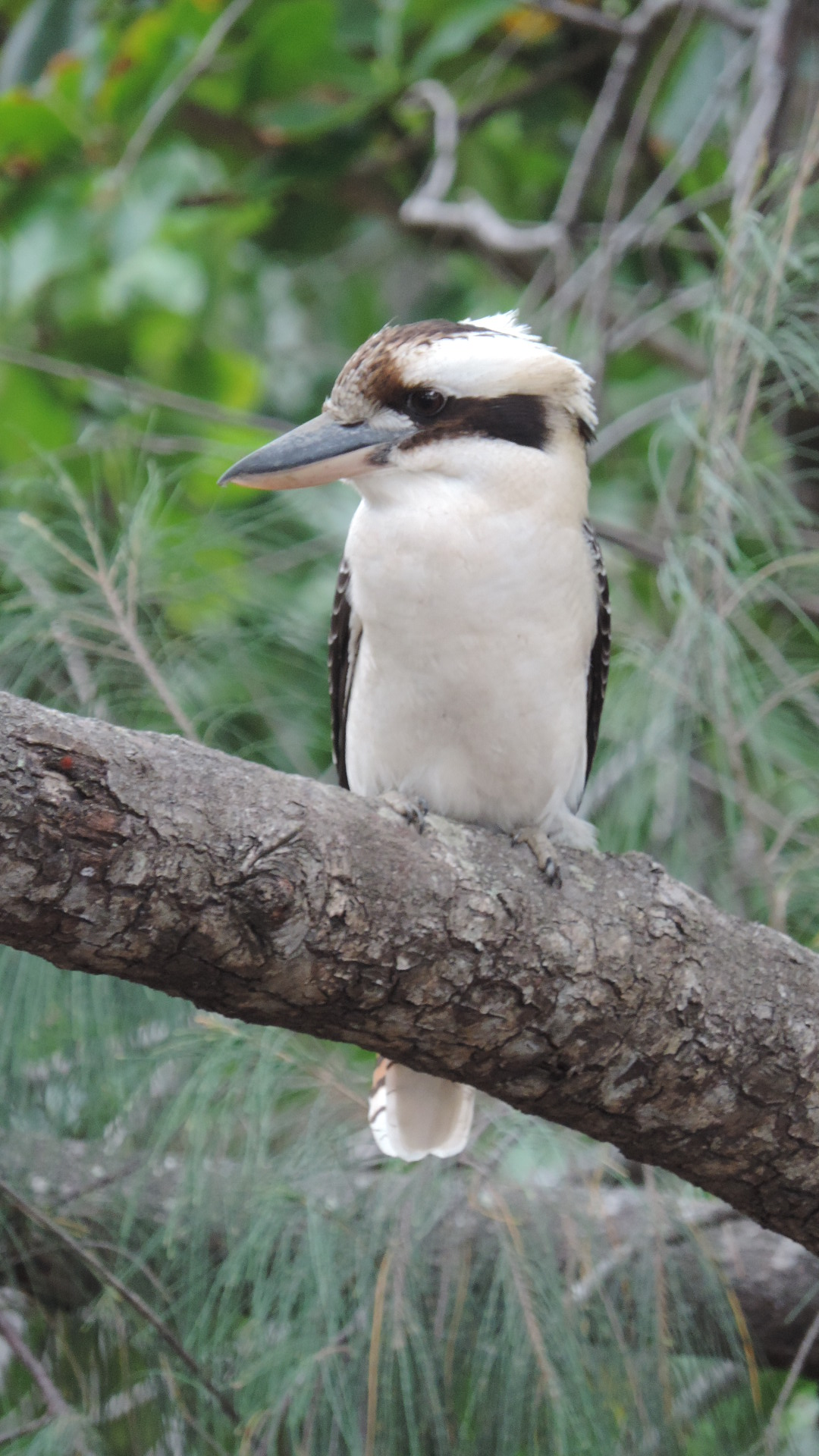 Kookaburra in a tree on the foreshore of Yorkeys Knob, 2018